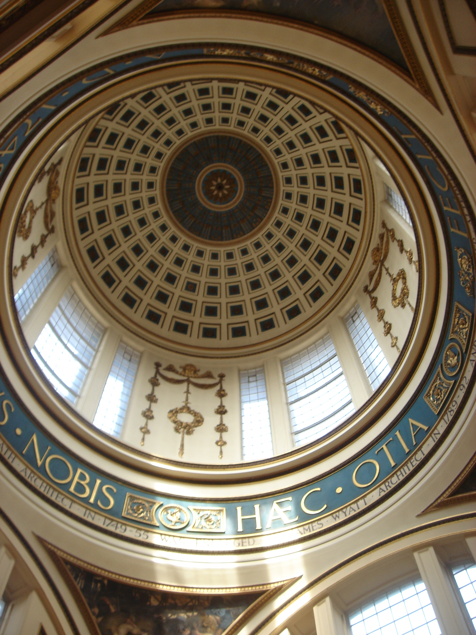 Liverpool Town Hall - interior of dome - 8 Sept 2012